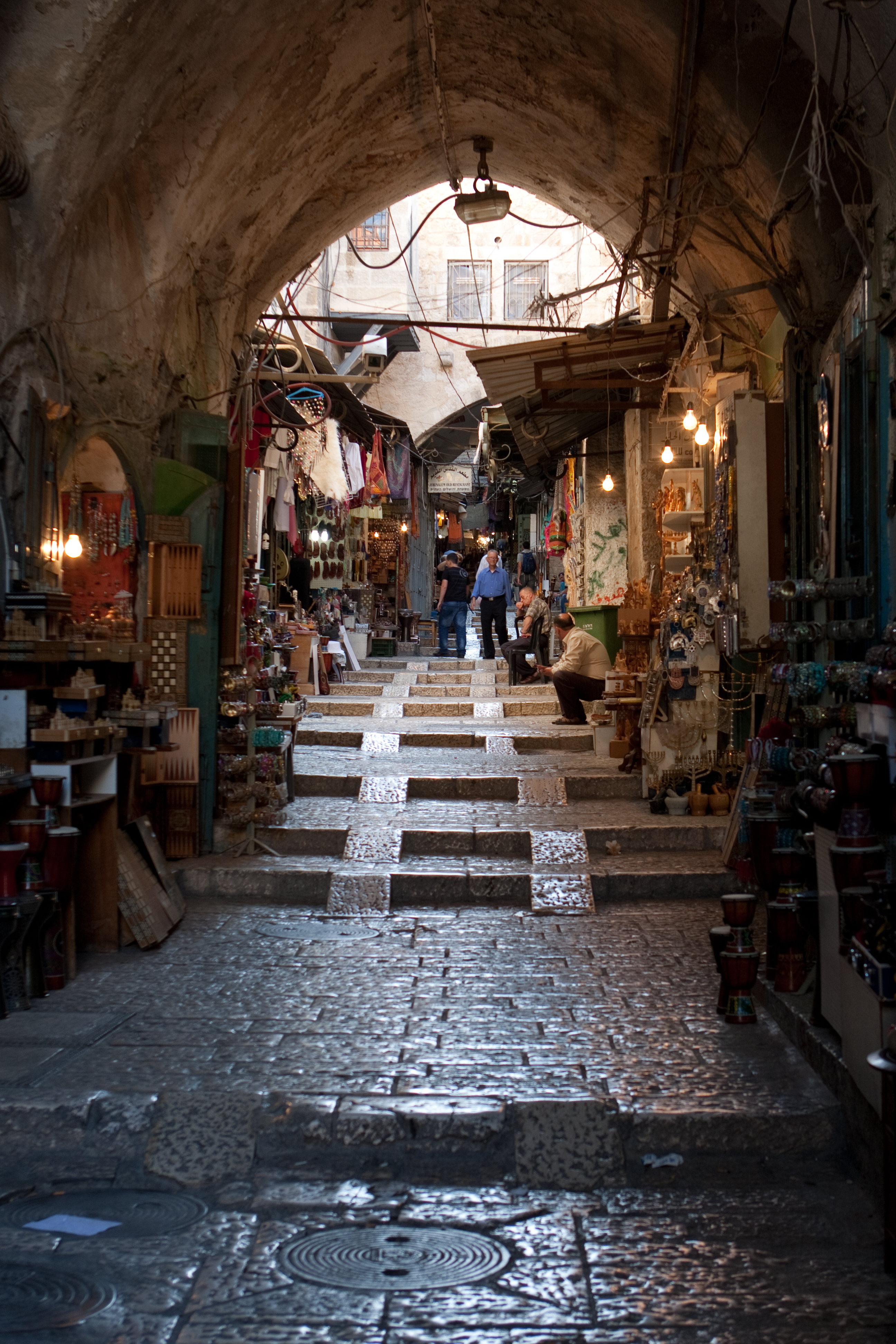 Typical street in the old city. Jerusalem, Israel/Palestine, July 2011 Jerusalem